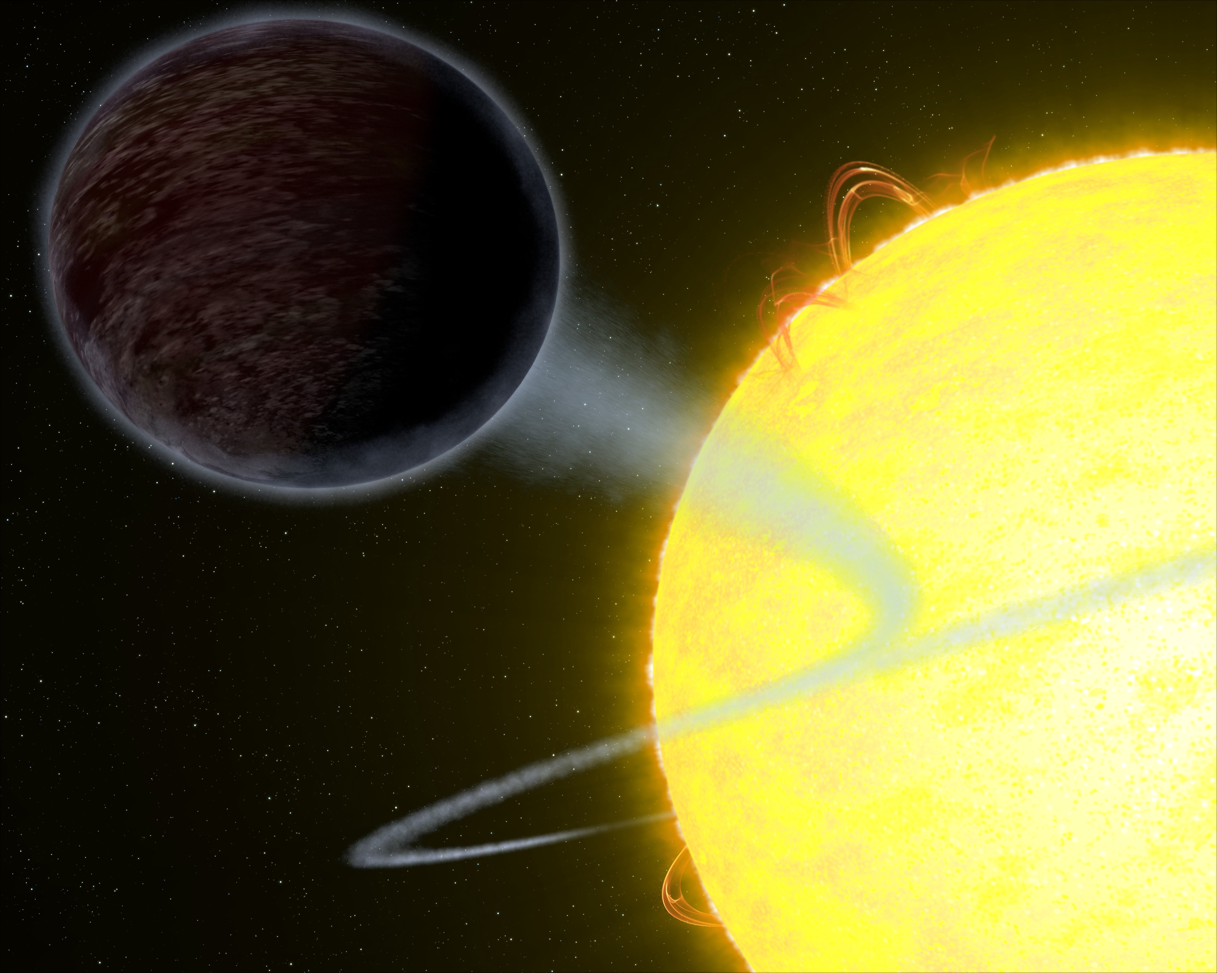 This artist’s impression shows the exoplanet WASP-12b — an alien world as black as fresh asphalt, orbiting a star like our Sun. Scientists were able to measure its albedo: the amount of light the planet reflects. The results showed that the planet is extremely dark at optical wavelengths.